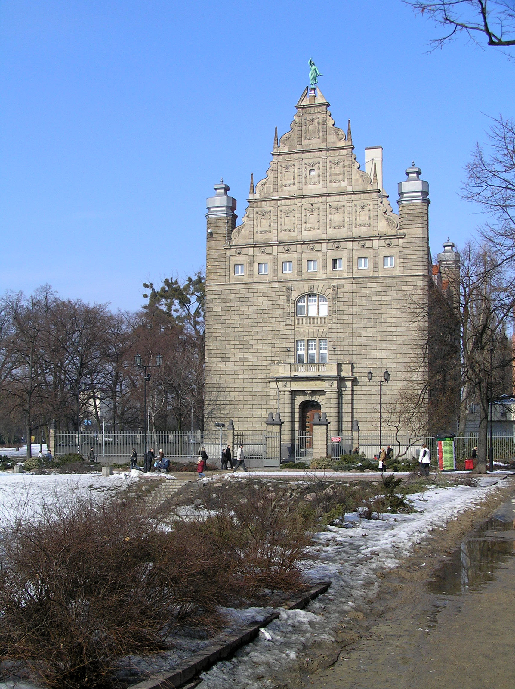 Toruń, Collegium Maximum of NCU, former bank (Rapacki Sq.)